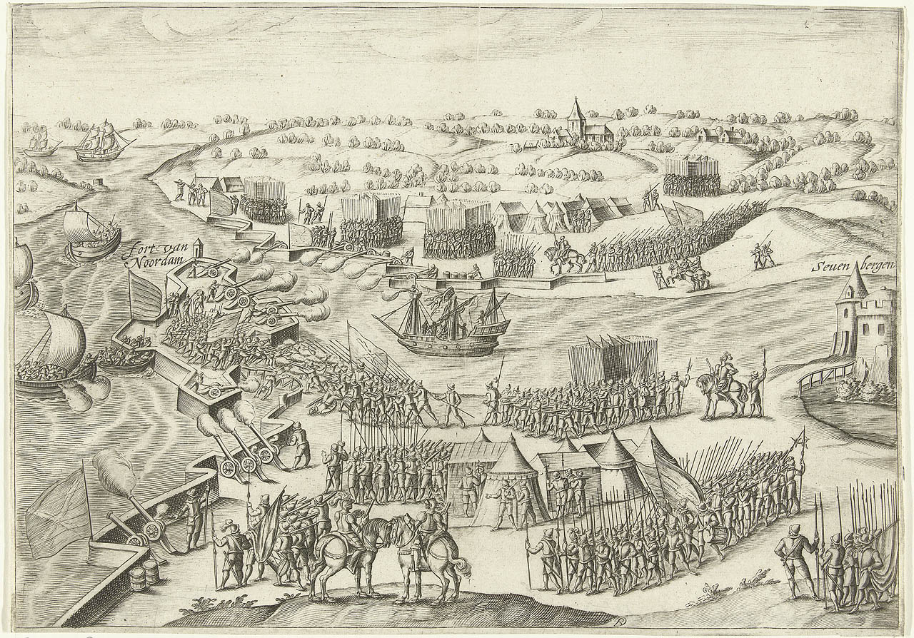 Defense of the Fort Noordam in 1590 by Matthijs Helt against the Spanish army of Karel van Mansfeld